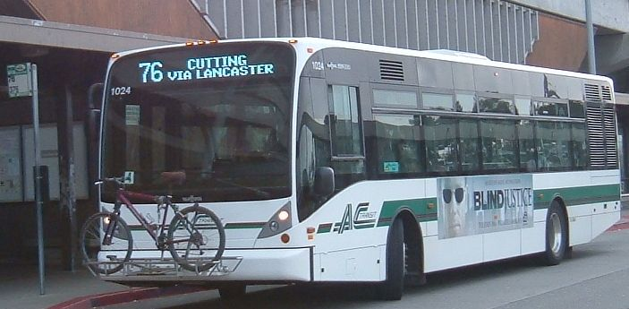 AC Transit route 76 bus at El Cerrito del Norte station in 2005